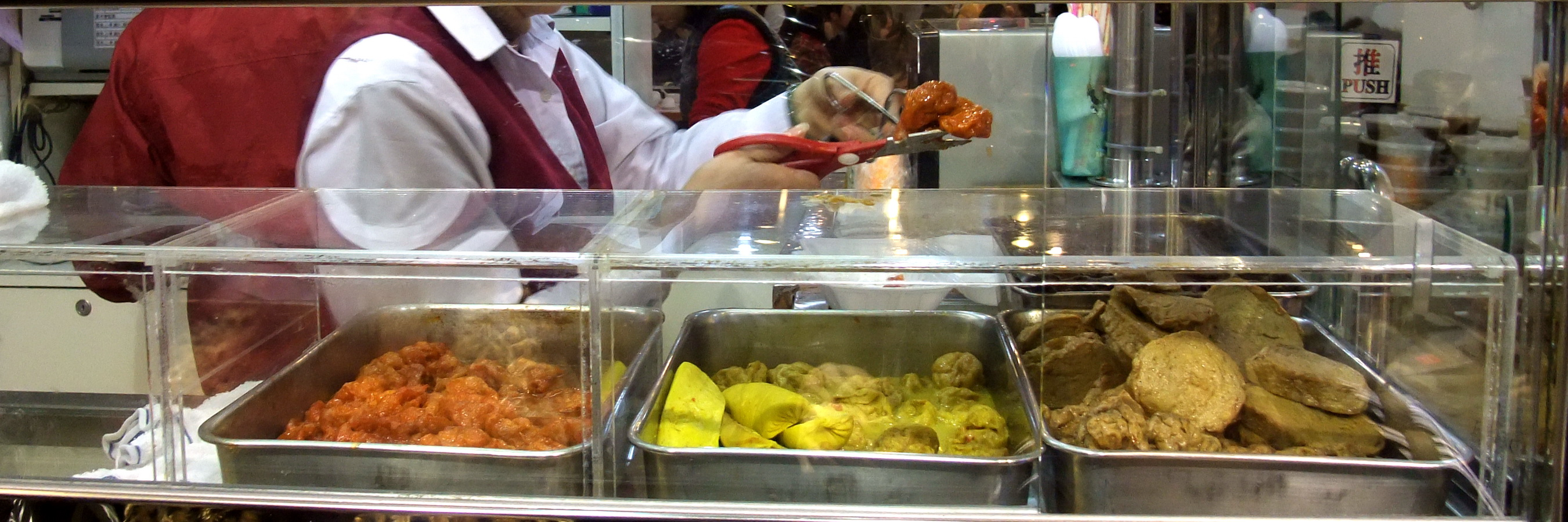 Take-out counter of a Chinese vegetarian restaurant in Hong Kong.